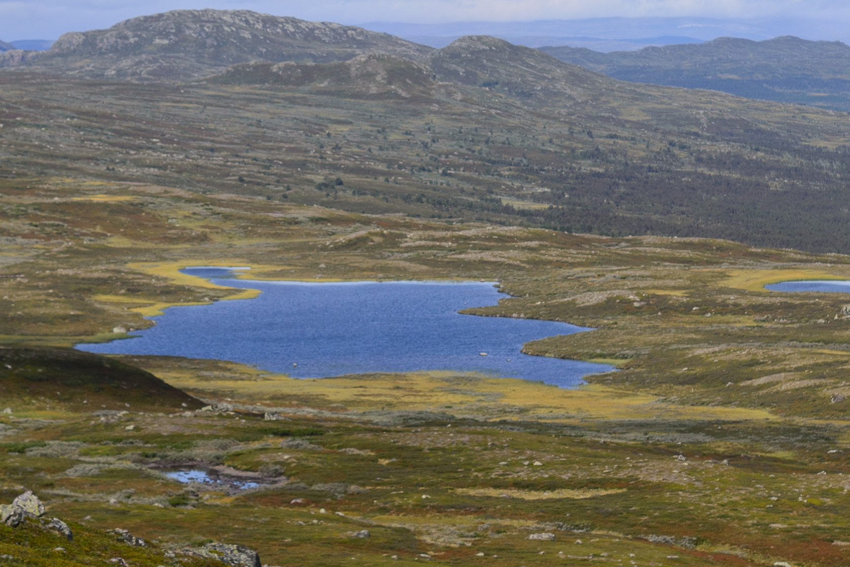 Lake Gråstötstjärnen in Härjedalen Municipality.